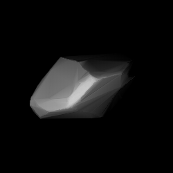 3D convex shape model of 1110 Jaroslawa, computed using light curve inversion techniques. J. Hanuš, J. Ďurech, M. Brož, B. D. Warner (June 2011). "A study of asteroid pole-latitude distribution based on an extended set of shape models derived by the lightcurve inversion method". Astronomy and Astrophysics 530: A134. ISSN 0004-6361. arXiv